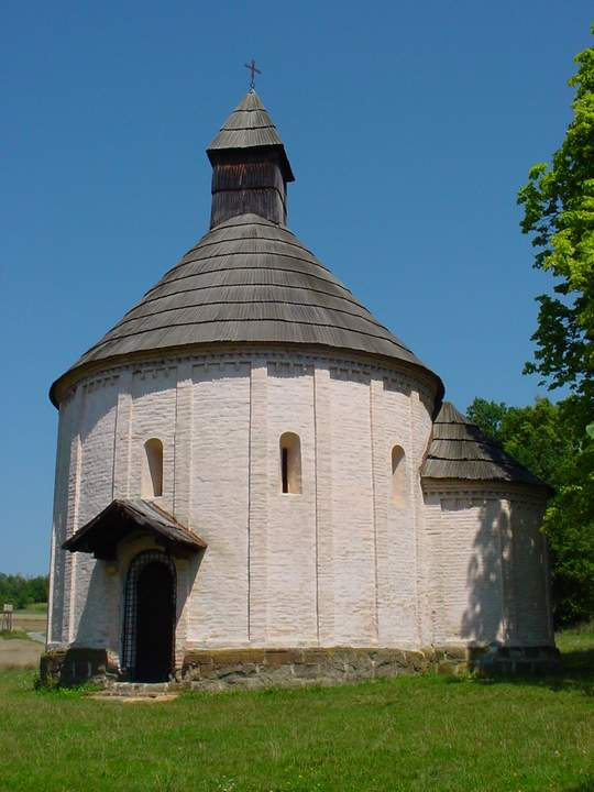 Round church in Selo/Nagytótlak, Slovenia